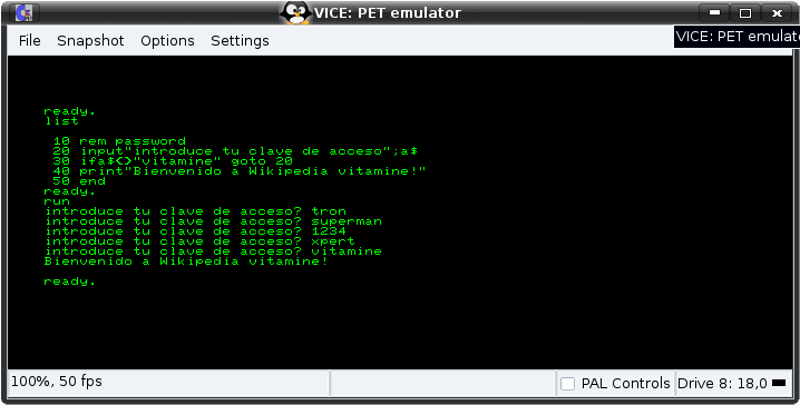 Snapshot of the Commodore PET-32 microcomputer showing a program in the B.A.S.I.C. computer programming language, running under the VICE emulator in a GNU/Linux distribution.